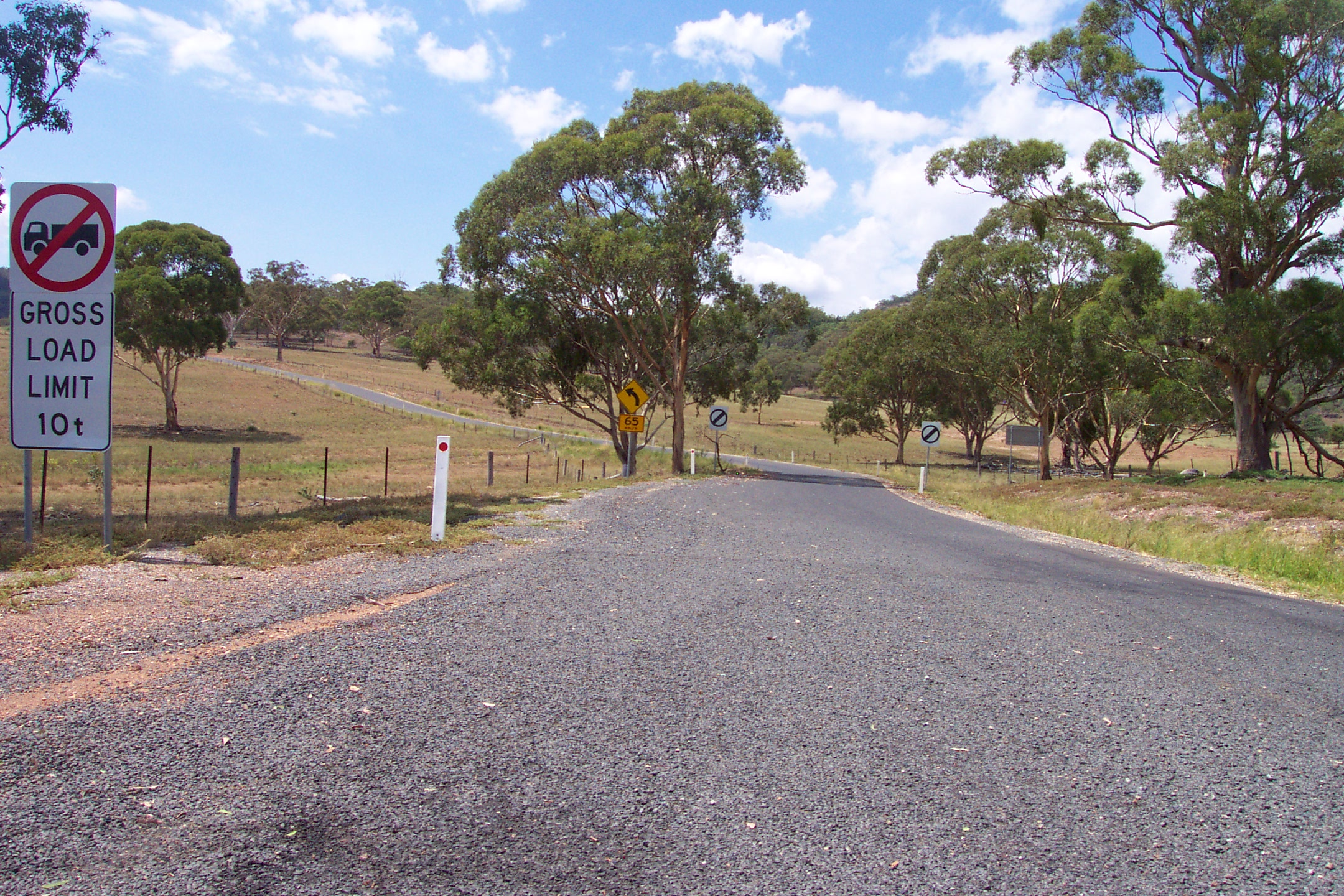 Road signs on Yarrawarra Road near the intersection of the Bylong Valley Way, showing speed derestriction signs that don't officially exist in New South Wales